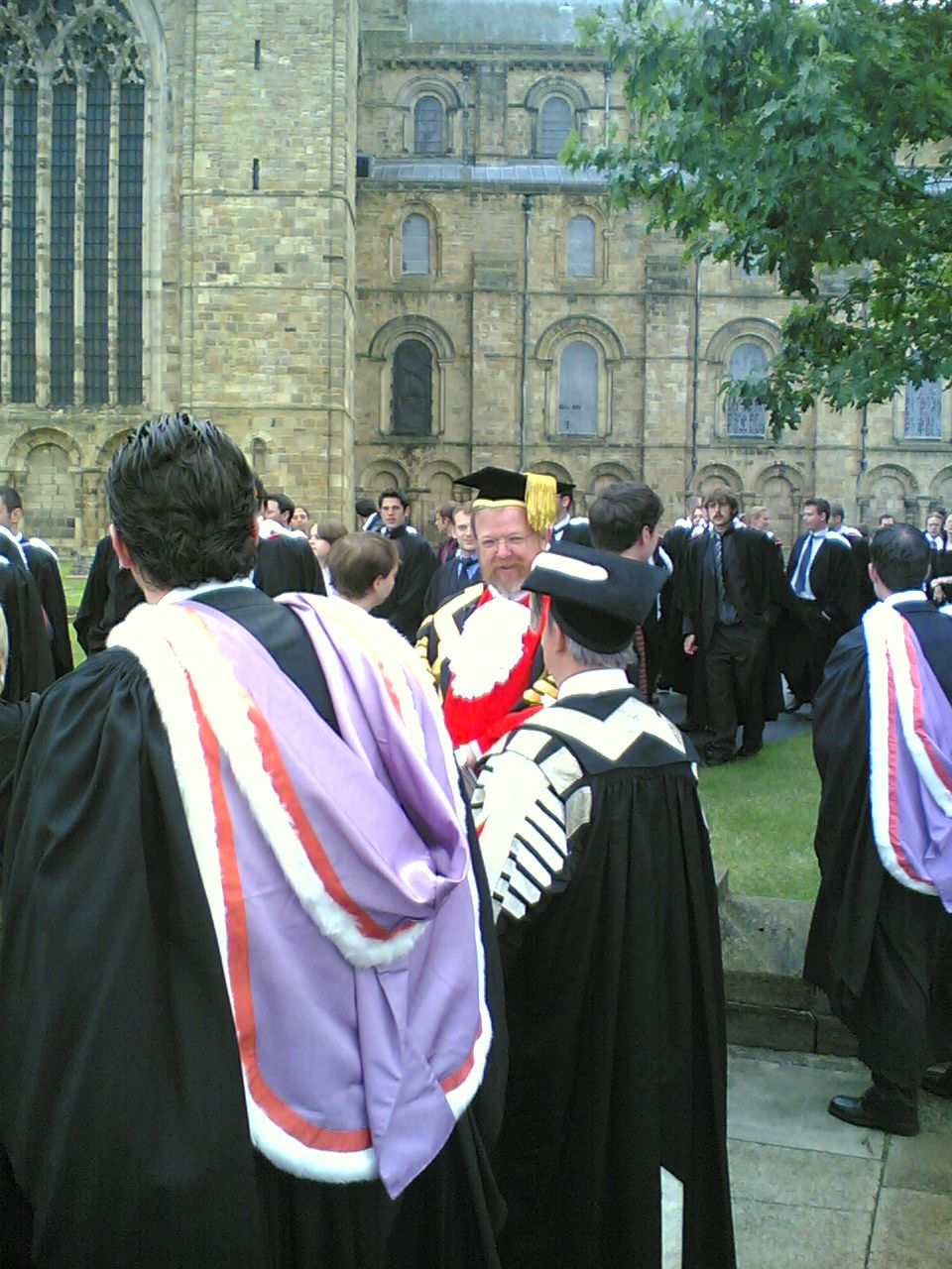 Bill Bryson was appointed Chancellor of Durham University in 2005, and is in the Centre of the photo, wearing the red habit under his Chancellor's robes. A good view of the Bachelor of Science (Dunelm) hood, palatinate edged with red ribbon and white fur, is seen on the left of the picture.Chancellor Bill Bryson at Degree Ceremony